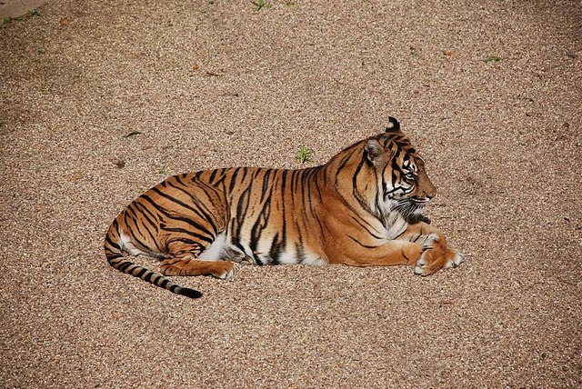 A Tiger in Dudley Zoo, West Midlands, England, United Kingdom.